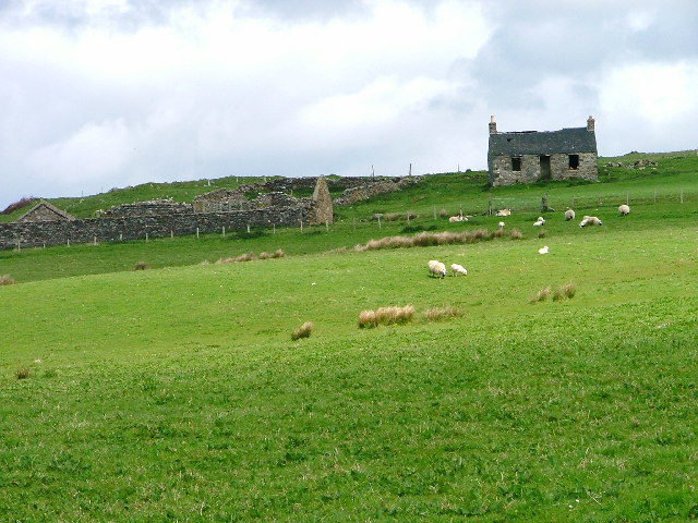 Buaile Mhic-lante. Ruined croft.